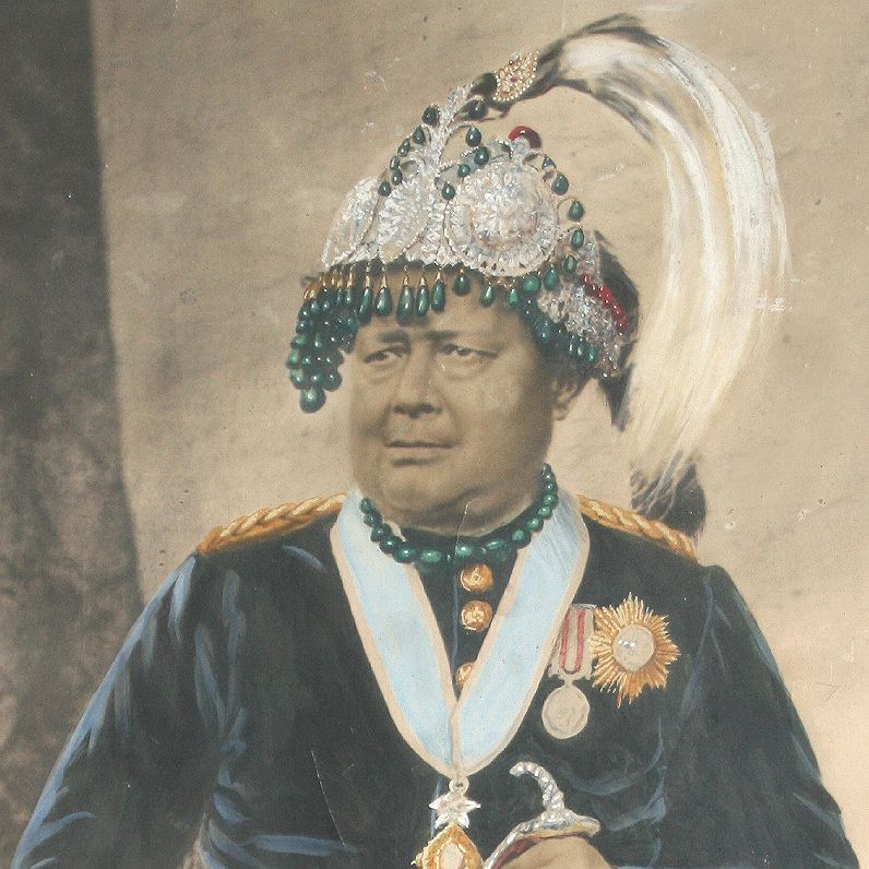 Ranaudip Singh Bahadur Rana